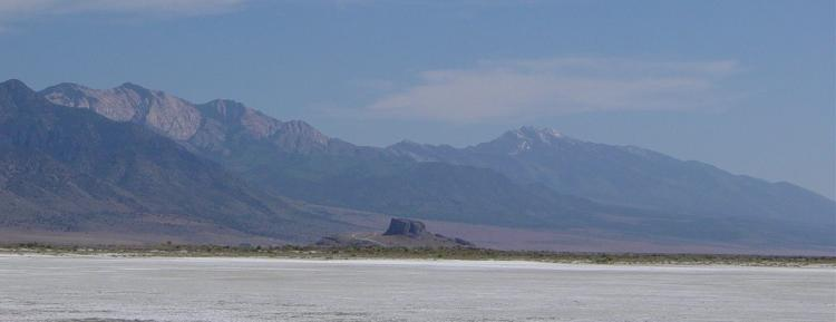 Butte in Great Salt Lake Desert. View mostly south/SSE; Deseret Peak, 11075 ft, at far south. Viewed in line with it is Salt Mountain, 6061 ft. The butte is Lone Rock, 3-mi south of Timpie. (Utah, DeLorme Atlas & Gazetteer) (photo taken at Interstate 80, Great Salt Lake-(probably just west of Timpie))